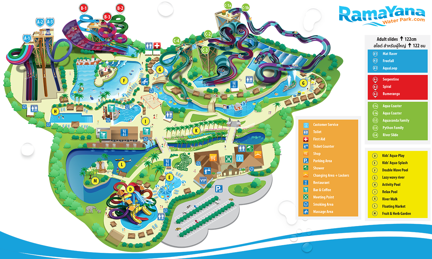 Plan of Ramayana Water Park